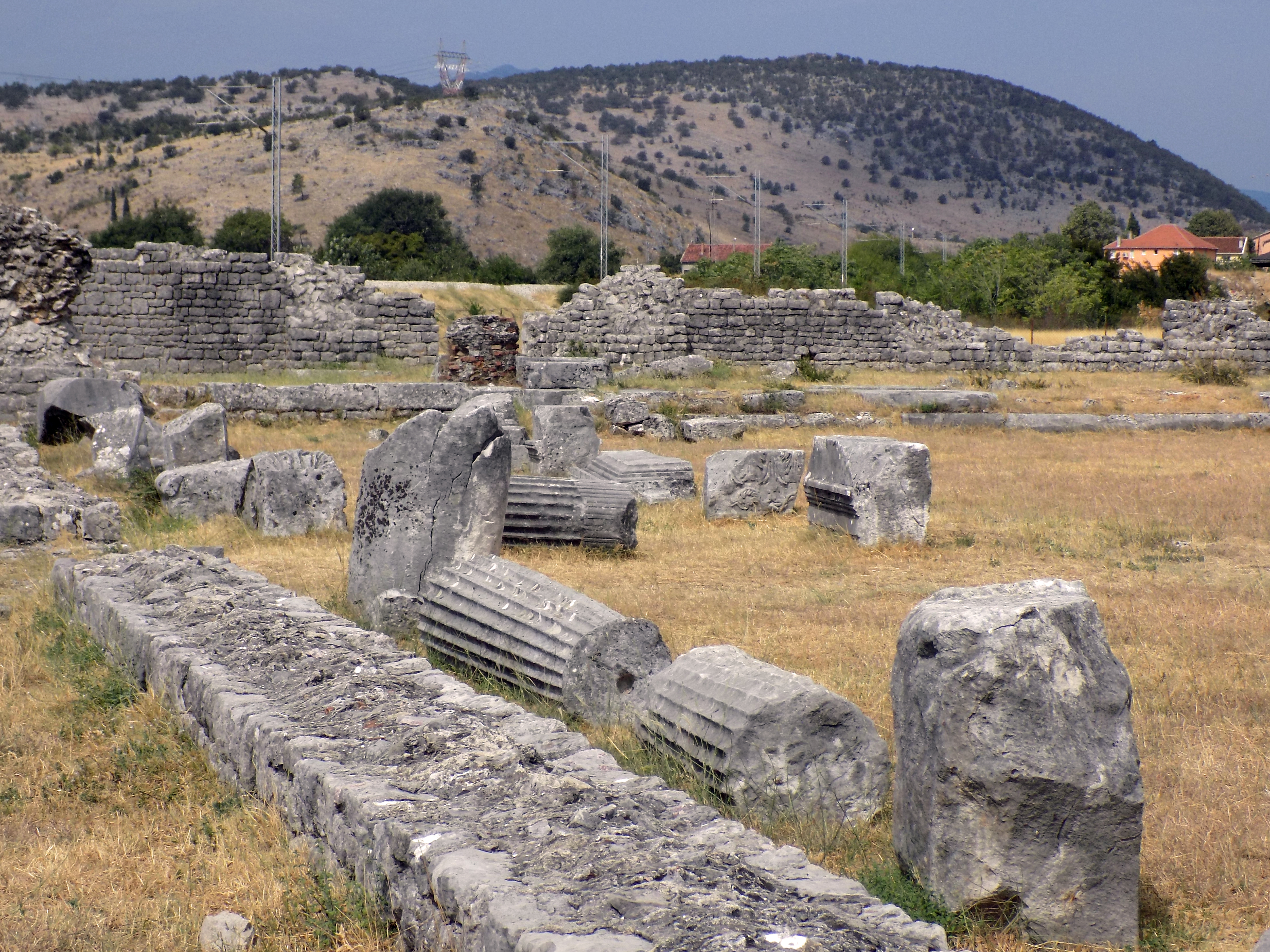 Ruins of the ancient city of Doclea, archaeological site Duklja near Podgorica, Montenegro